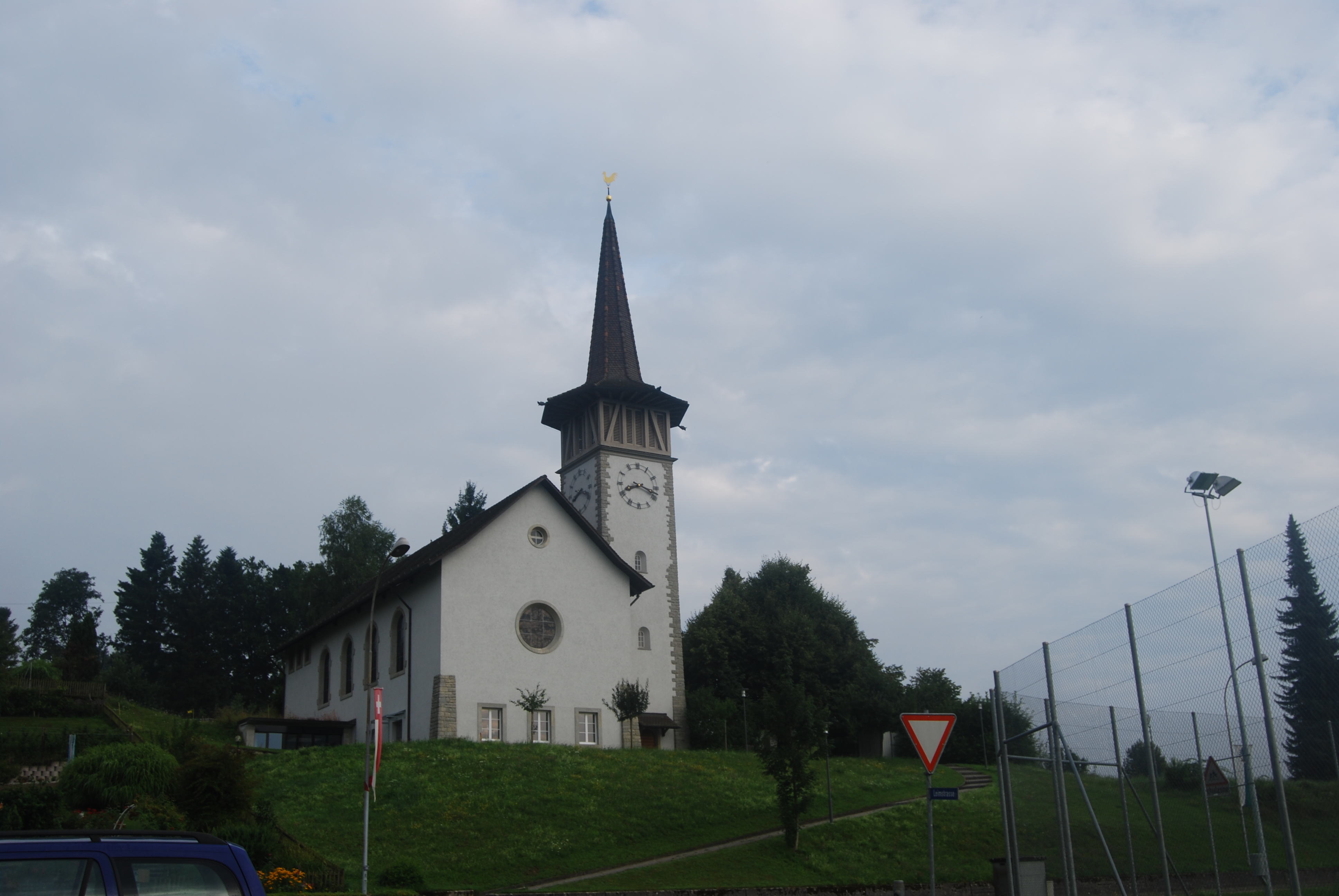 Church of Vordemwald, canton of Aargau, SwitzerlandEsperanto: Preĝejo de Vordemwald, Kantono Argovio, Svislando